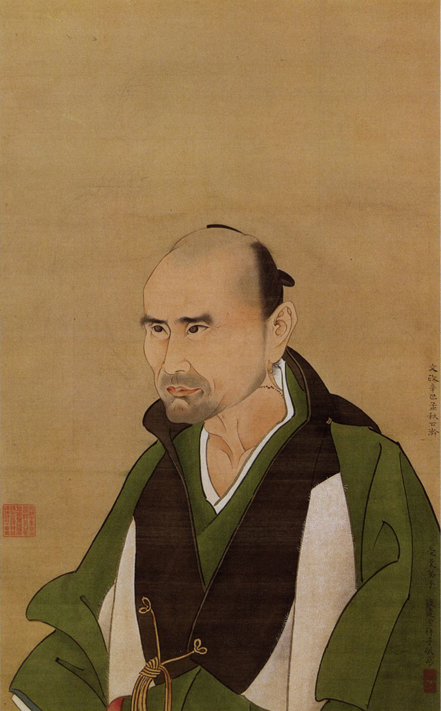 A portrait of Satoh Issai